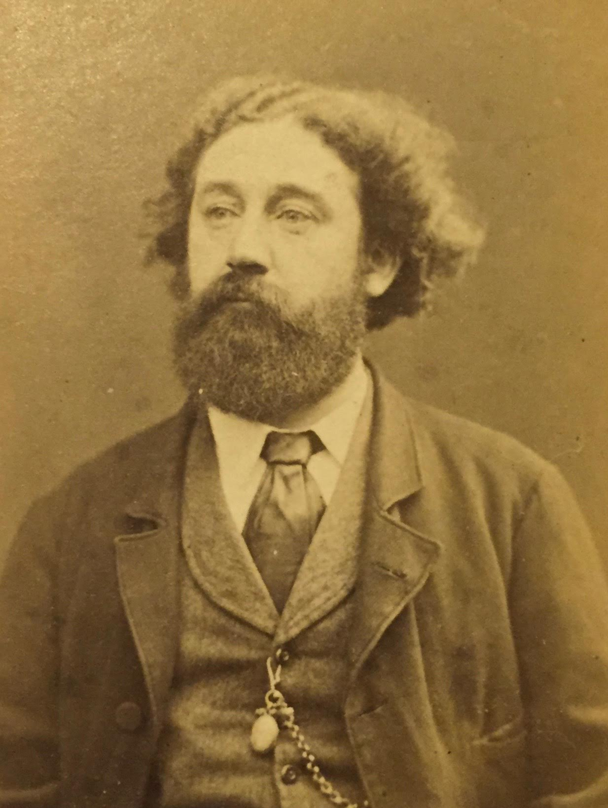 Albumen photograph by Eugène Appert, c. 1870.